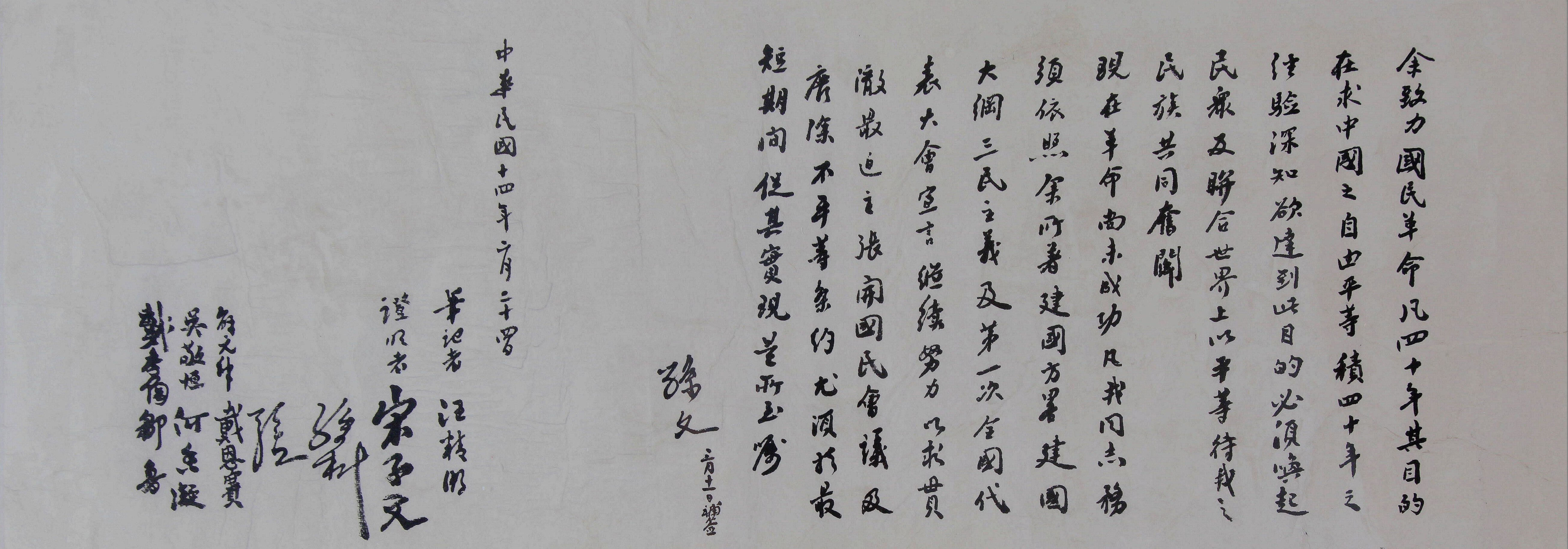 Will of the Premier of the Nationalist Party (Kuomintang)